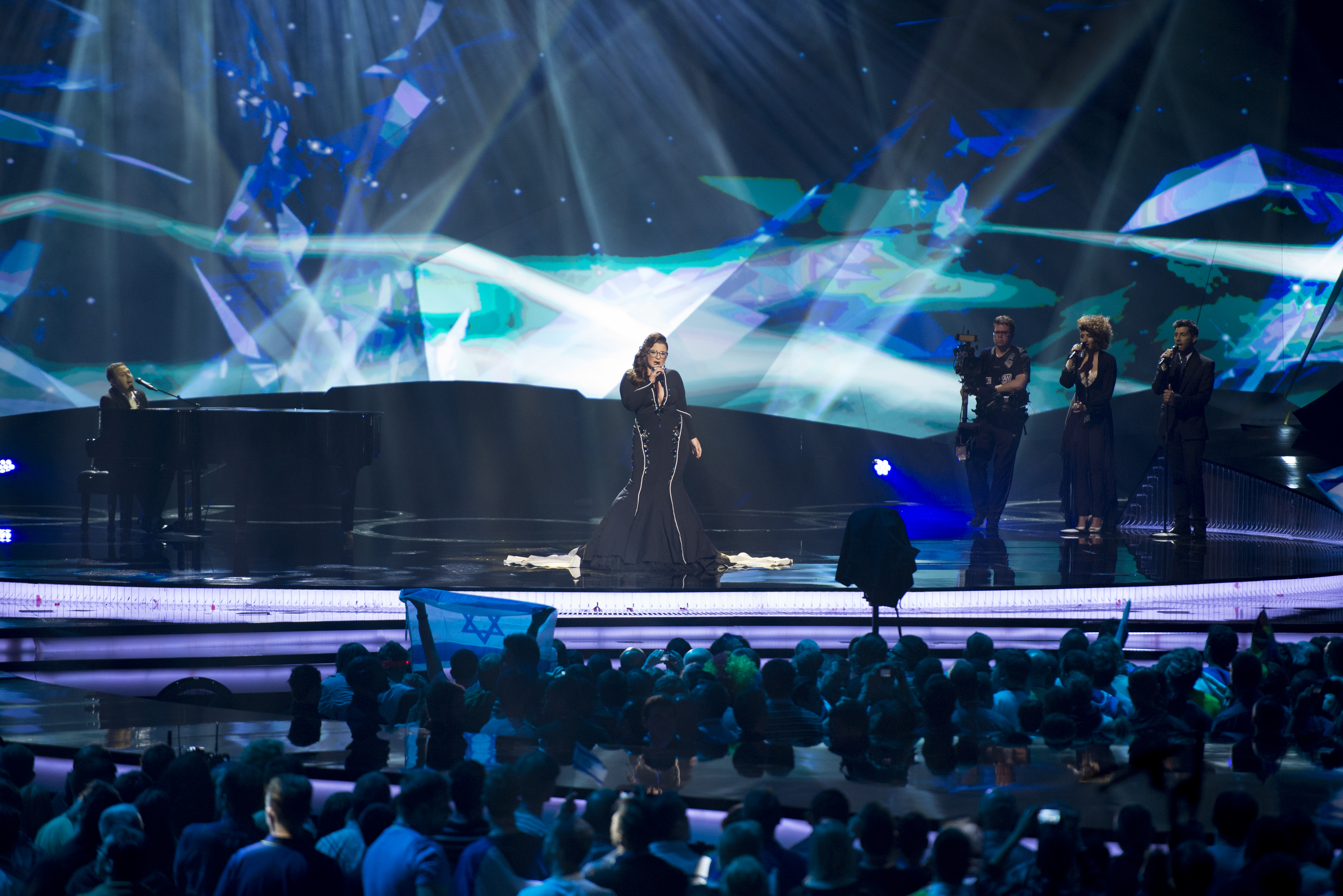 Moran Mazor representing Israel with the song "Rak Bishvilo" (רק בשבילו) during the second dress rehearsal of the second semi final of the Eurovision Song Contest 2013 in Malmö. (Help translate this text)